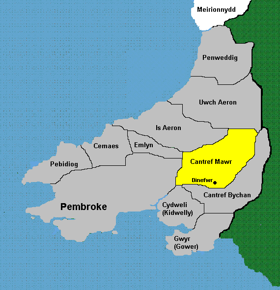 Deheubarth c. 1158, showing areas ruled by Rhys ap Gruffydd Rhion Pritchard - own work. Created using MS Paint 04/08/2006